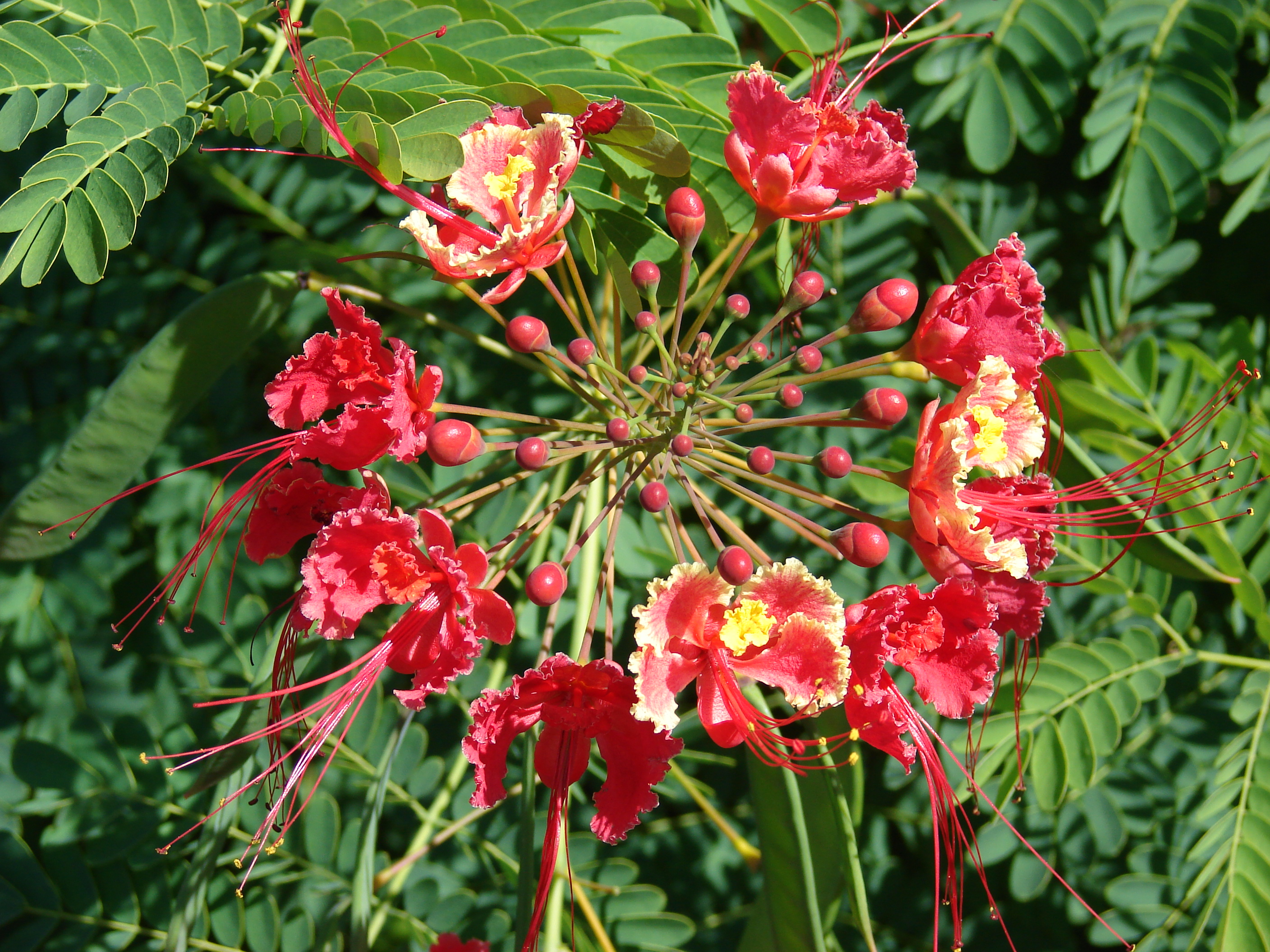 Caesalpinia pulcherrima (flowers). Location: Maui, Pukalani